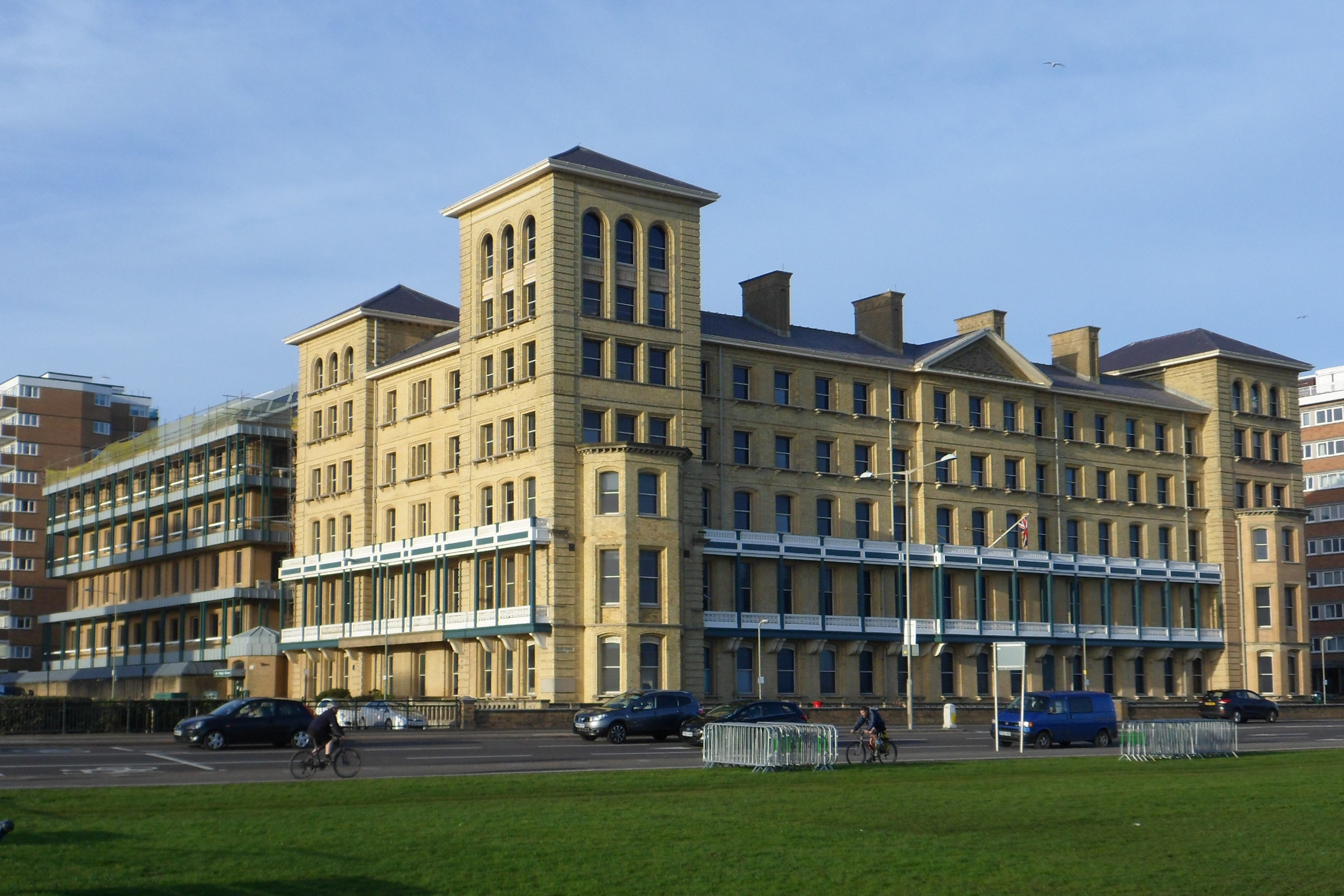 Kings House, Grand Avenue, Hove, City of Brighton and Hove, England. Built in 1871-74 as a hotel; later the headquarters of the SEEBOARD electricity company; now Brighton & Hove City Council offices. The extension to the rear was built in 1981. Listed at Grade II by English Heritage (NHLE Code 1205528)